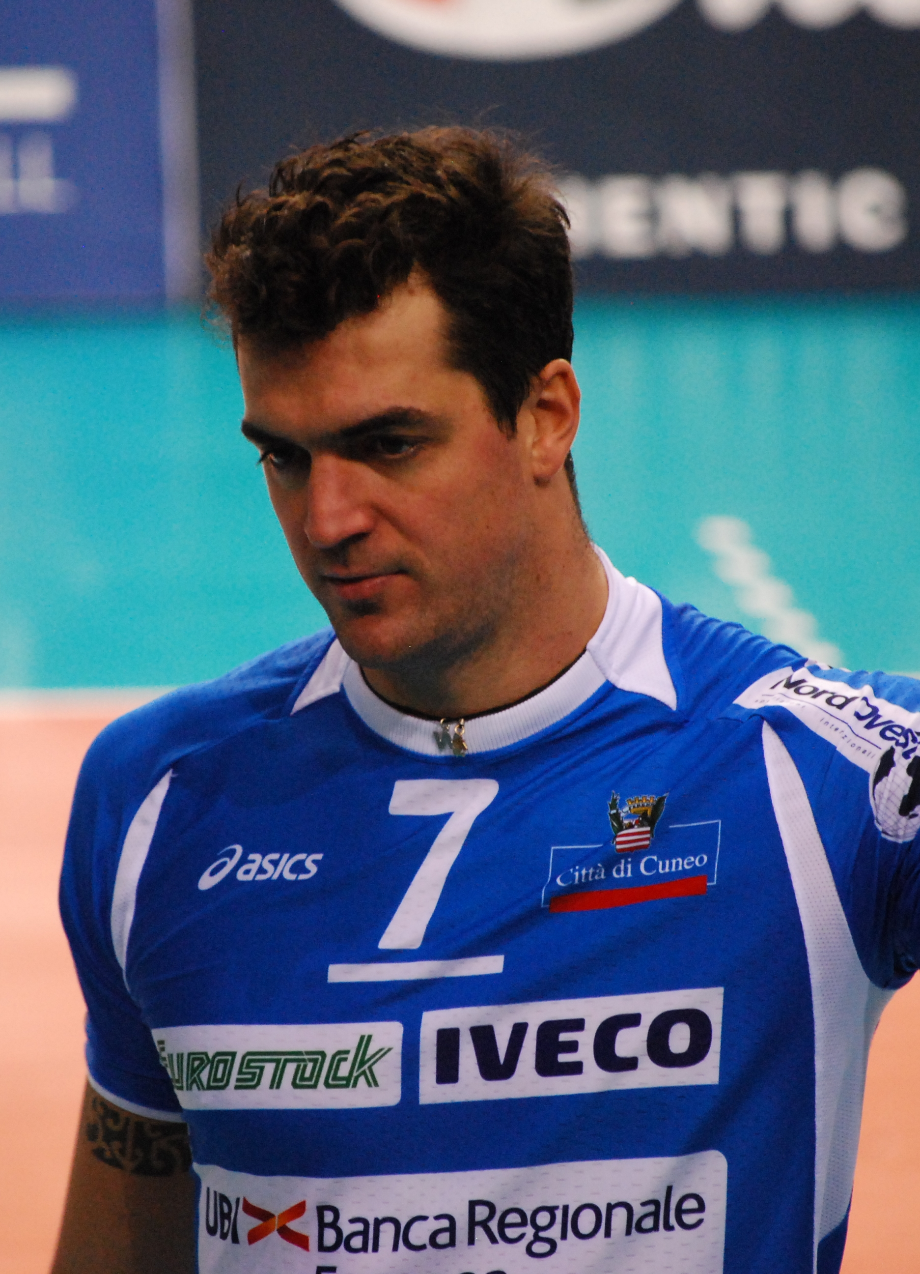 Wout WIJSMANS